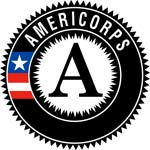 AmeriCorps logo